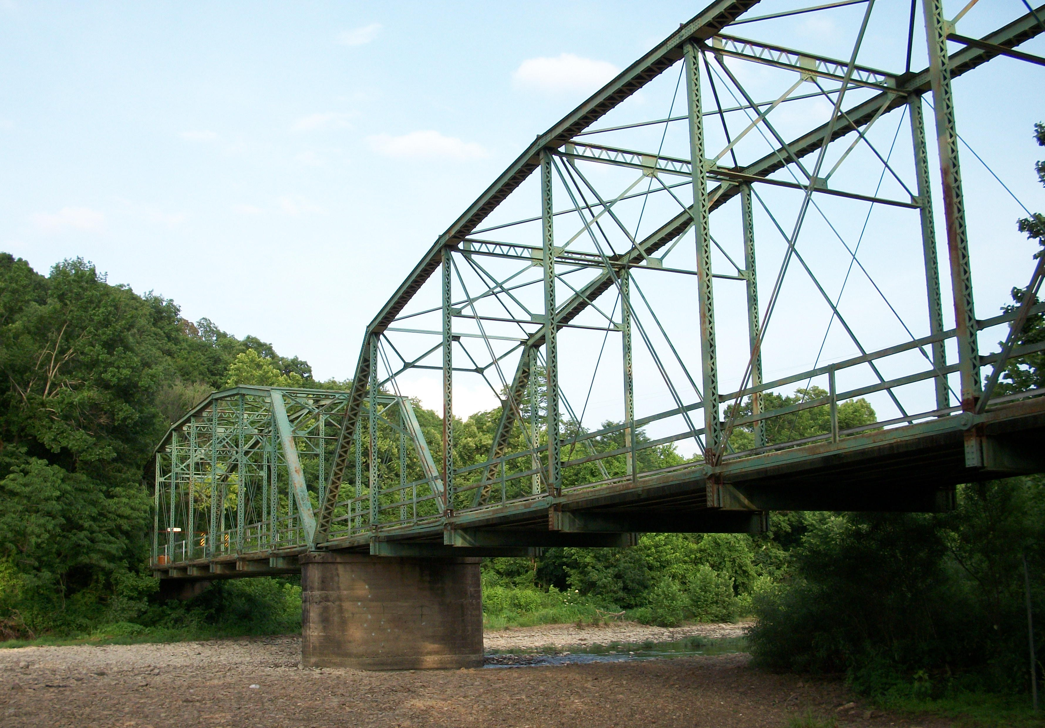 Woolsey Bridge in Washington County, Arkansas. This bridge is on the National Register of Historic Places, built in 1925. This image is taken facing southeast.